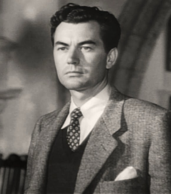 Philip Friend in Thunder on the Hill - trailer (cropped screenshot)